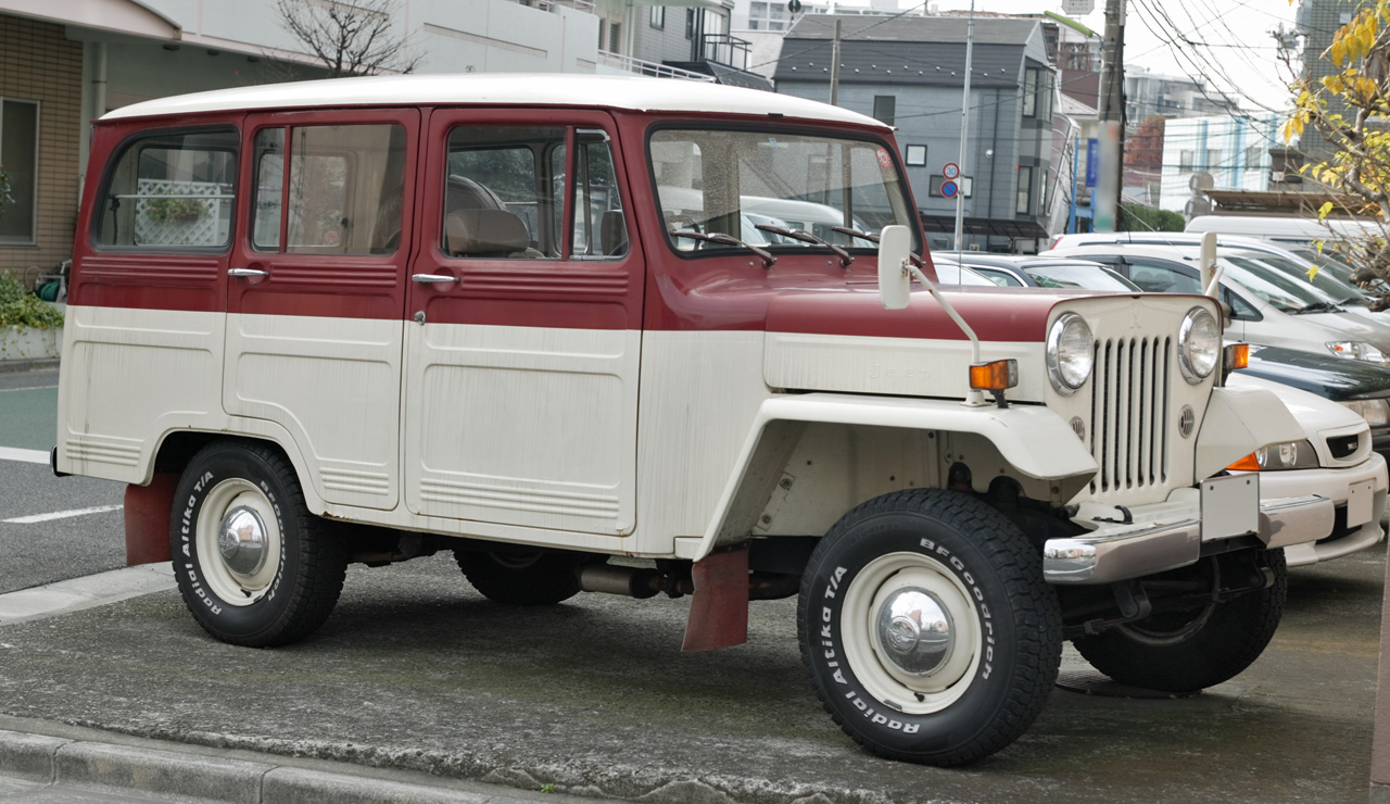 Mitsubishi Jeep Delivery-wagon J-37